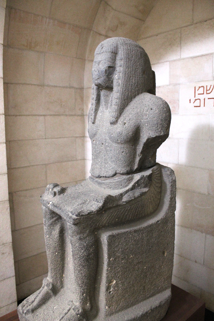 Basalt-stone statue of Ramesses III